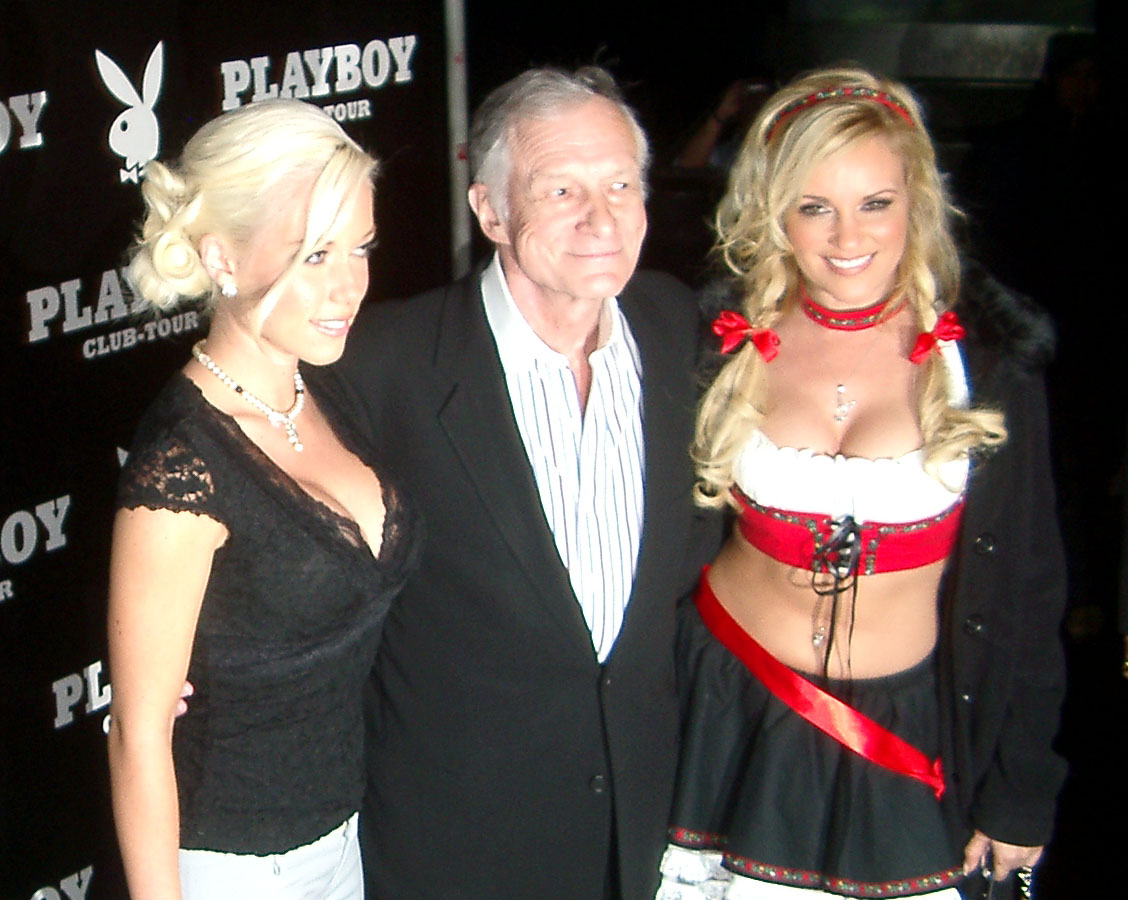 Hugh Hefner with his two girlfriends Kendra Wilkinson and Bridget Marquardt at his birthday party in Munich (2006).